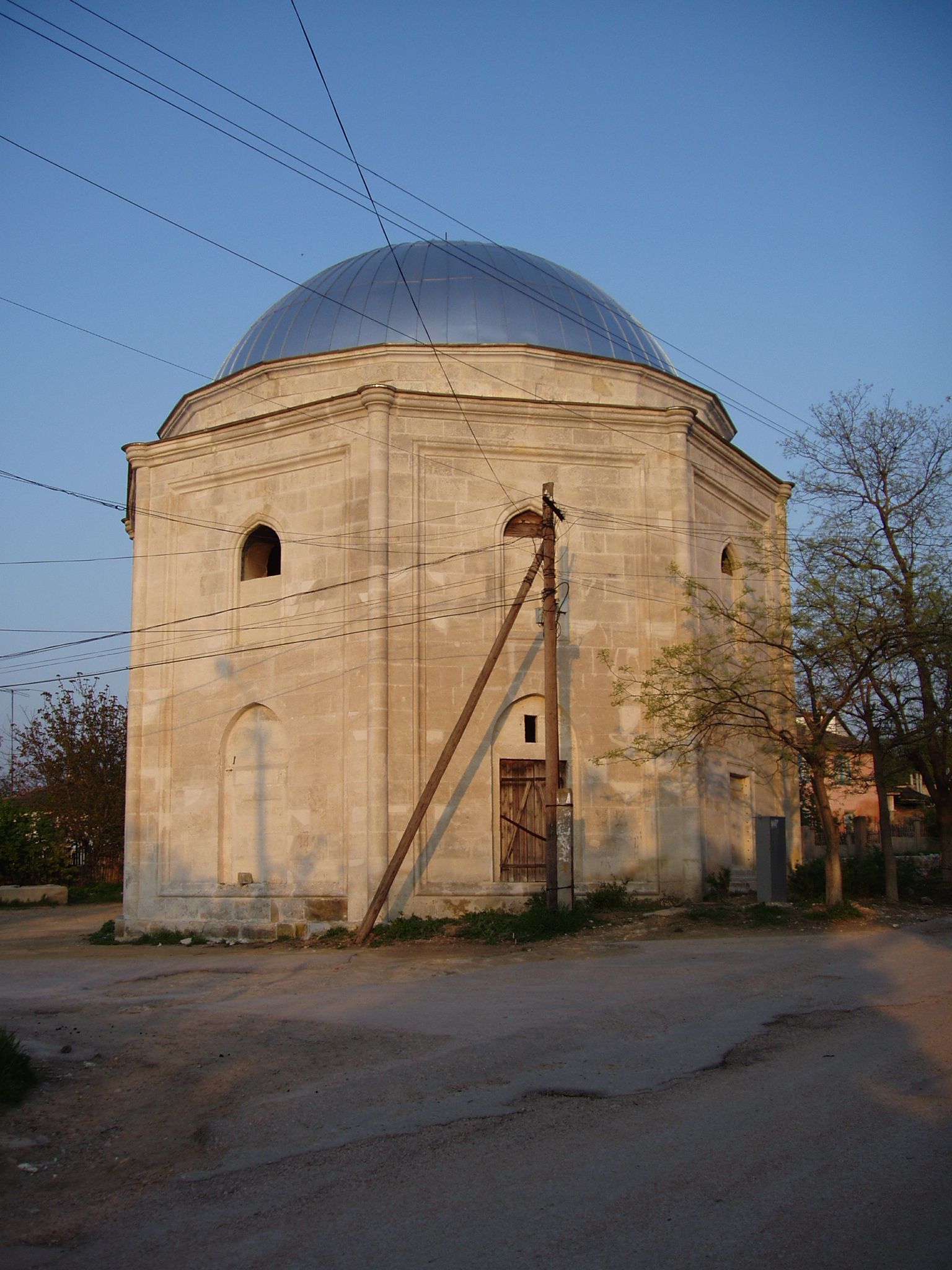 Mausoleum of Mehmed II Giray (ca 1584) in Eski Yurt (Bakhchisaray, Crimea, Ukraine)